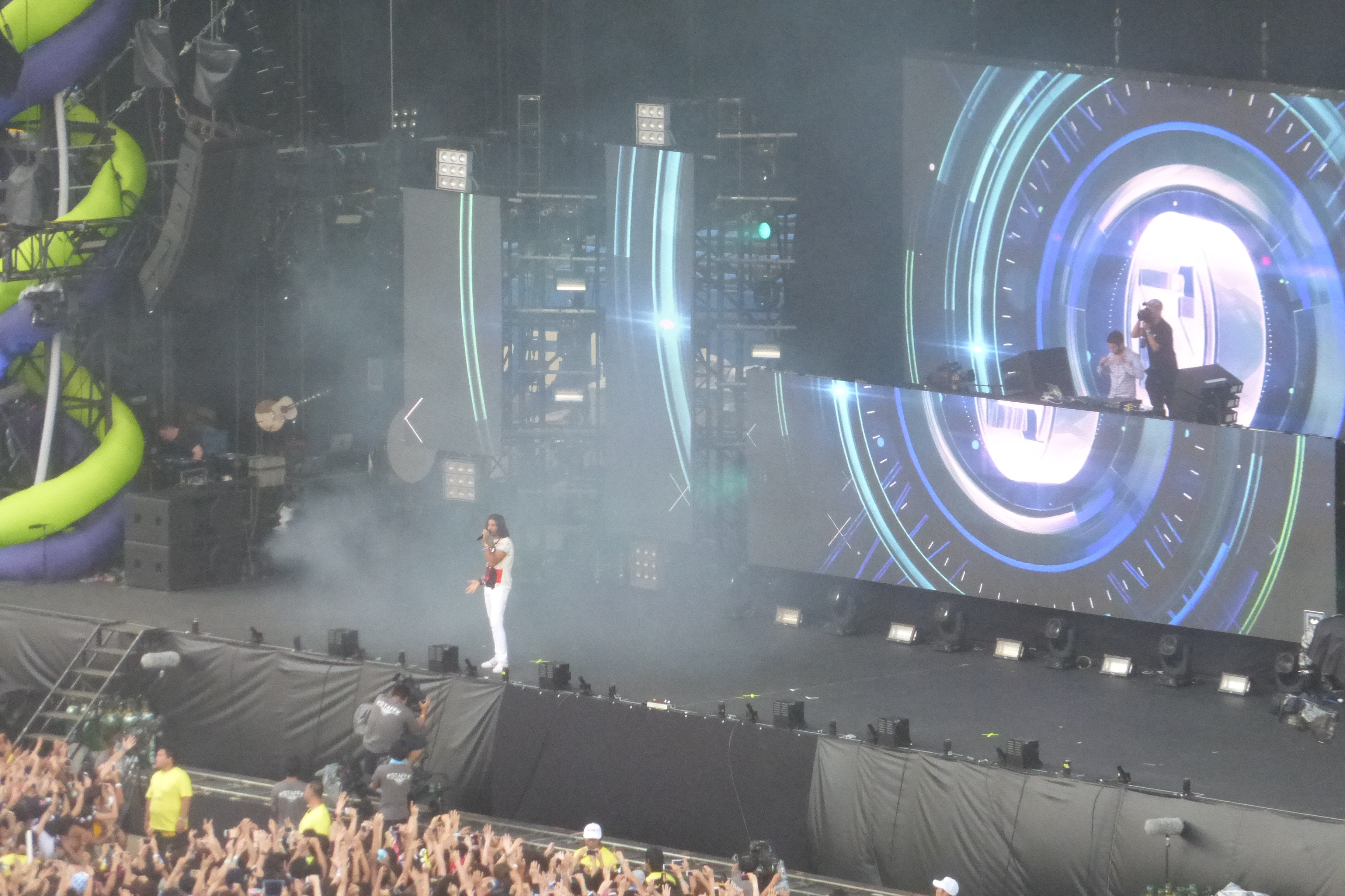 Nasri on stage with Zedd at Tokyo Summer Sonic (music festival) in Japan